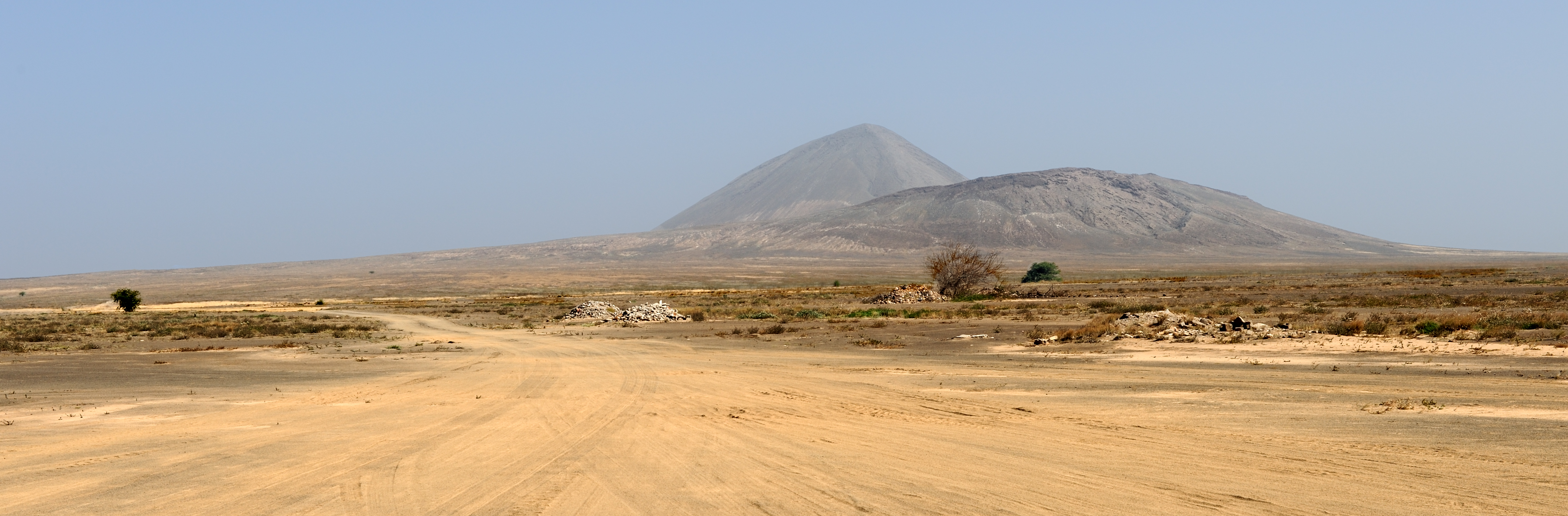 Cape Verde, isle of Sal: road and landscape in the north of Espargos.